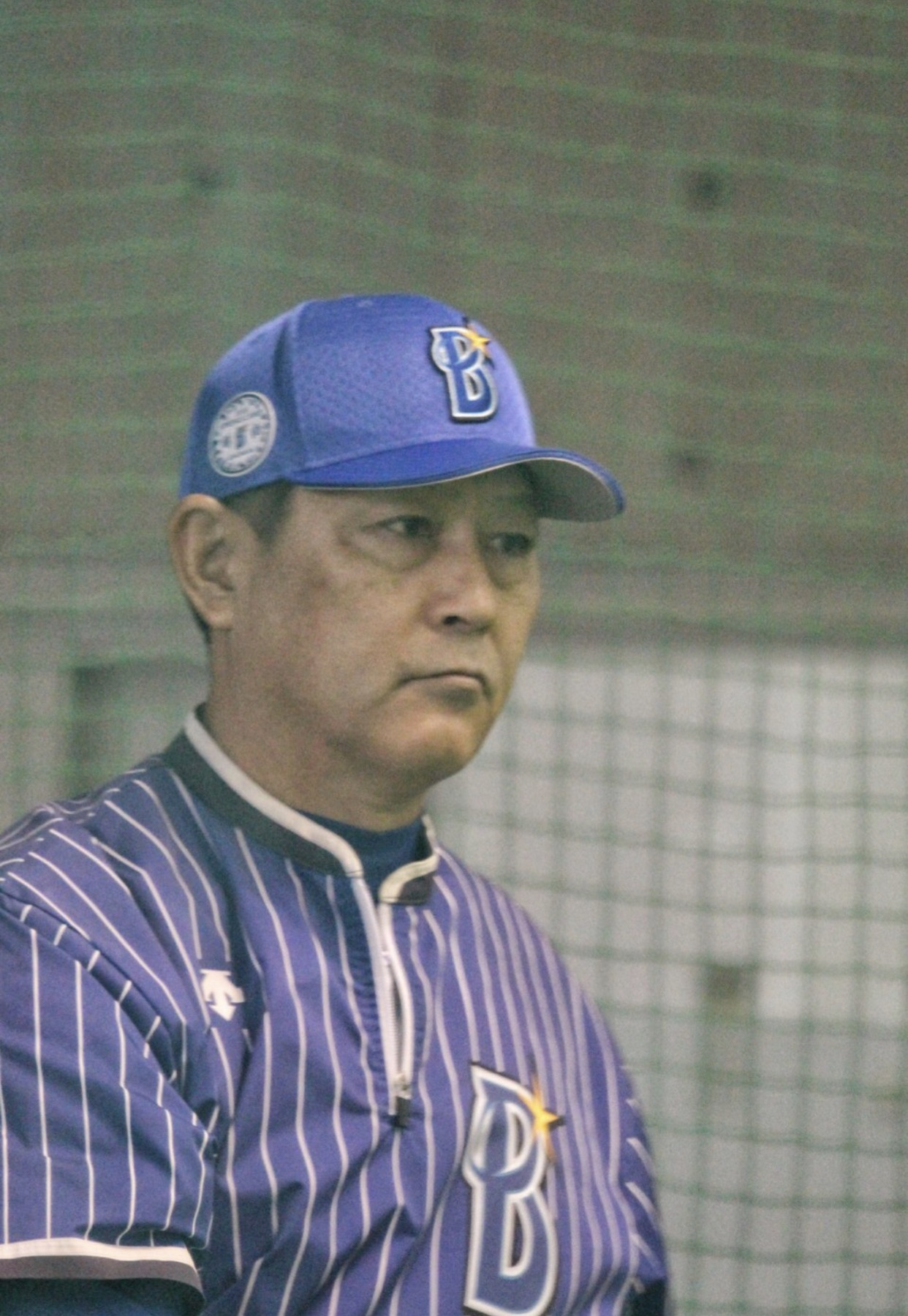 Okinawa Spring Camp